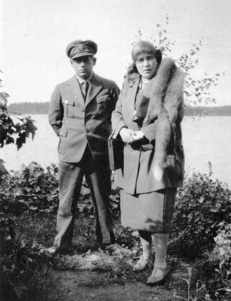 Photograph of the Finnish courtesan Minna Craucher and chauffeur Boris Wolkowski.